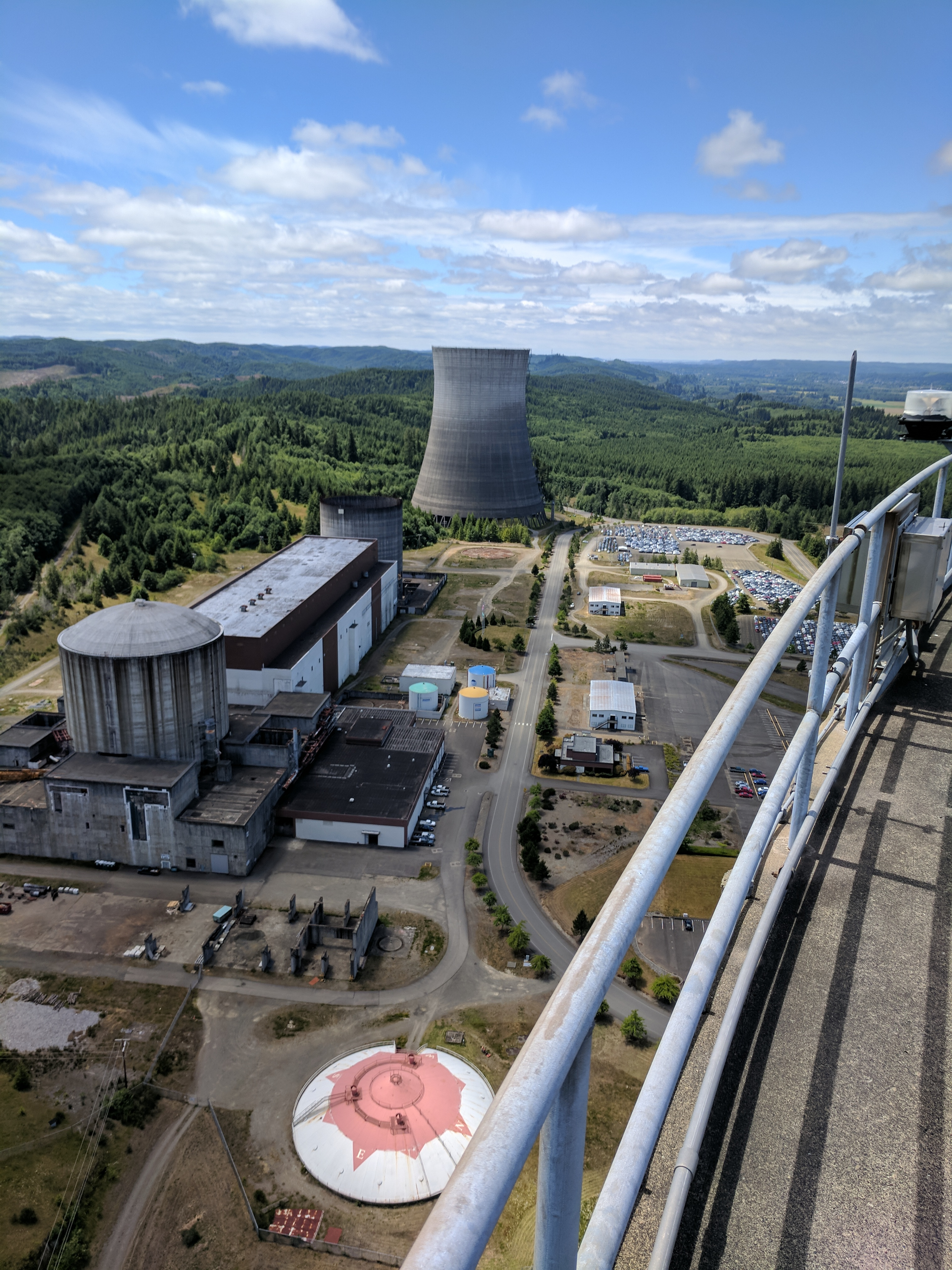 Photo of the Satsop reactor building and West cooling tower from the rim of the east cooling tower.